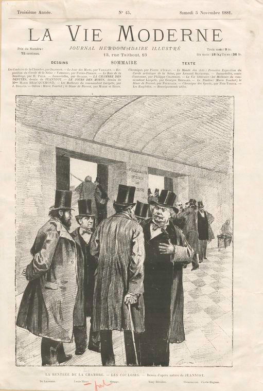 La Vie moderne, front page from 5th November 181